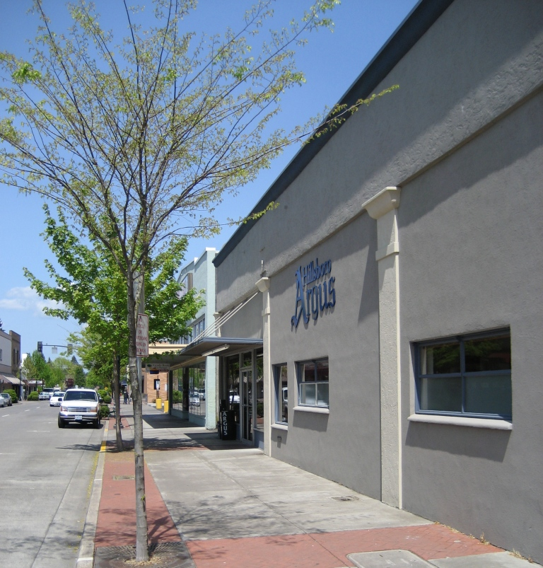 The former Hillsboro Argus building in downtown Hillsboro, Oregon, in 2008. This was the newspaper's headquarters from 1955 to 2014. The paper moved out in August 2014 and the building was sold, and in early 2015 it was gutted and extensive renovation work began.